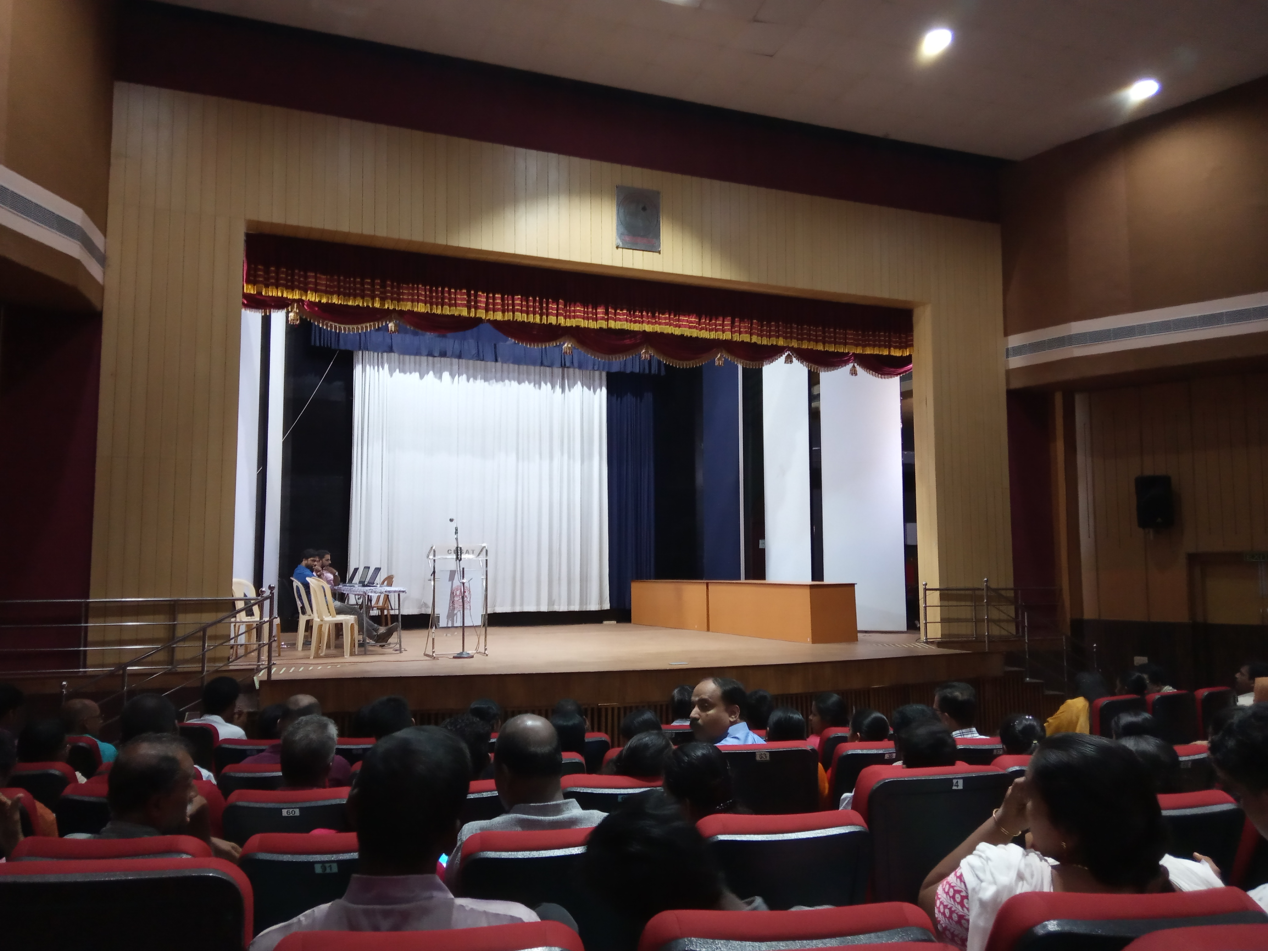 SEMINAR HALL DOWN THE HILL - INTERIOR VIEW